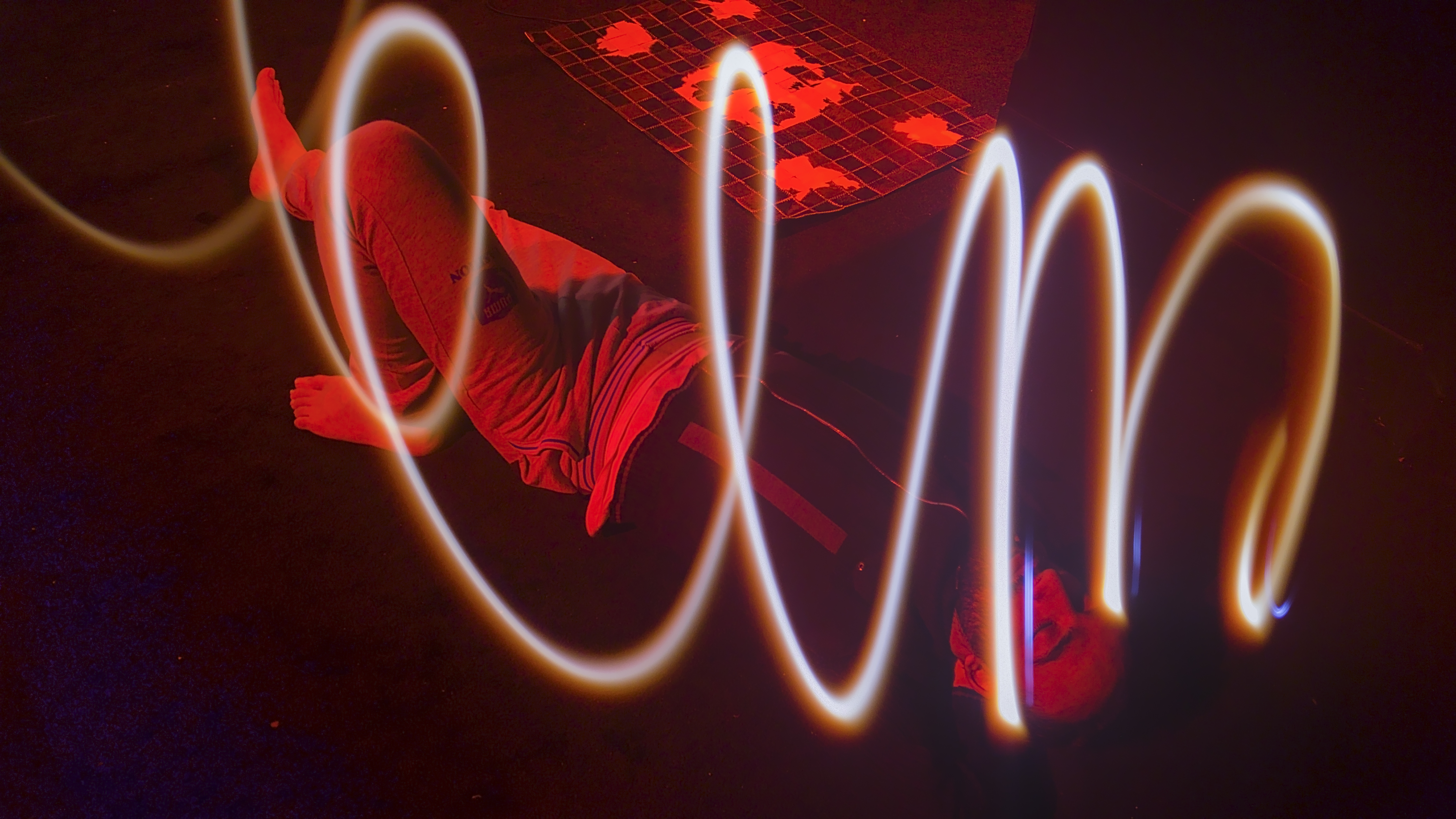 Sleep is a naturally recurring state of mind and body, characterized by altered consciousness, relatively inhibited sensory activity, inhibition of nearly all voluntary muscles, and reduced interactions with surroundings.